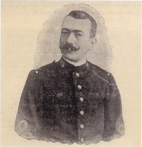 Portrait oh Alfredo Javaloyes (Elx, 1865-1944), composer of El Abanico